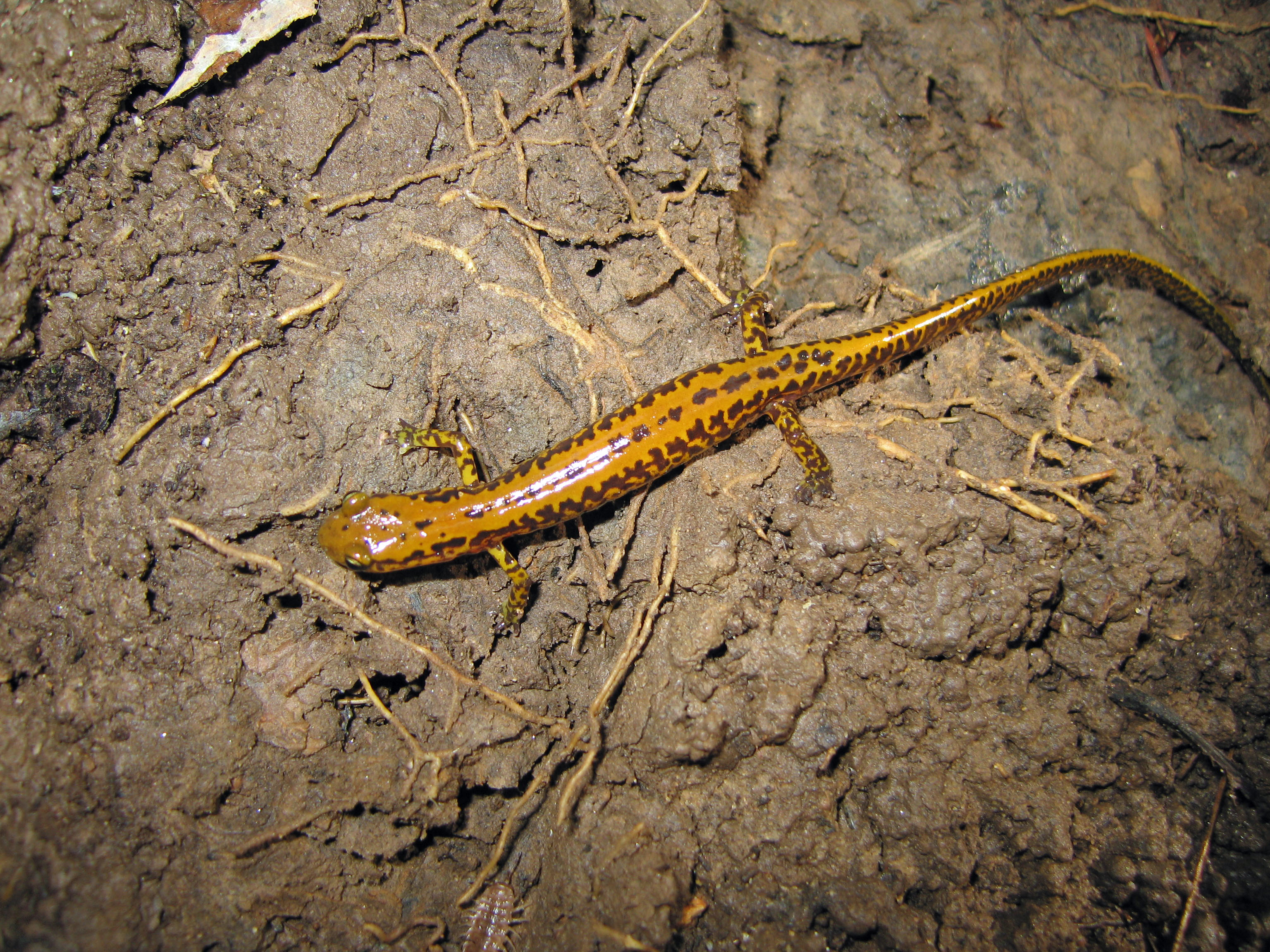 Longtail salamander (Eurycea longicauda)